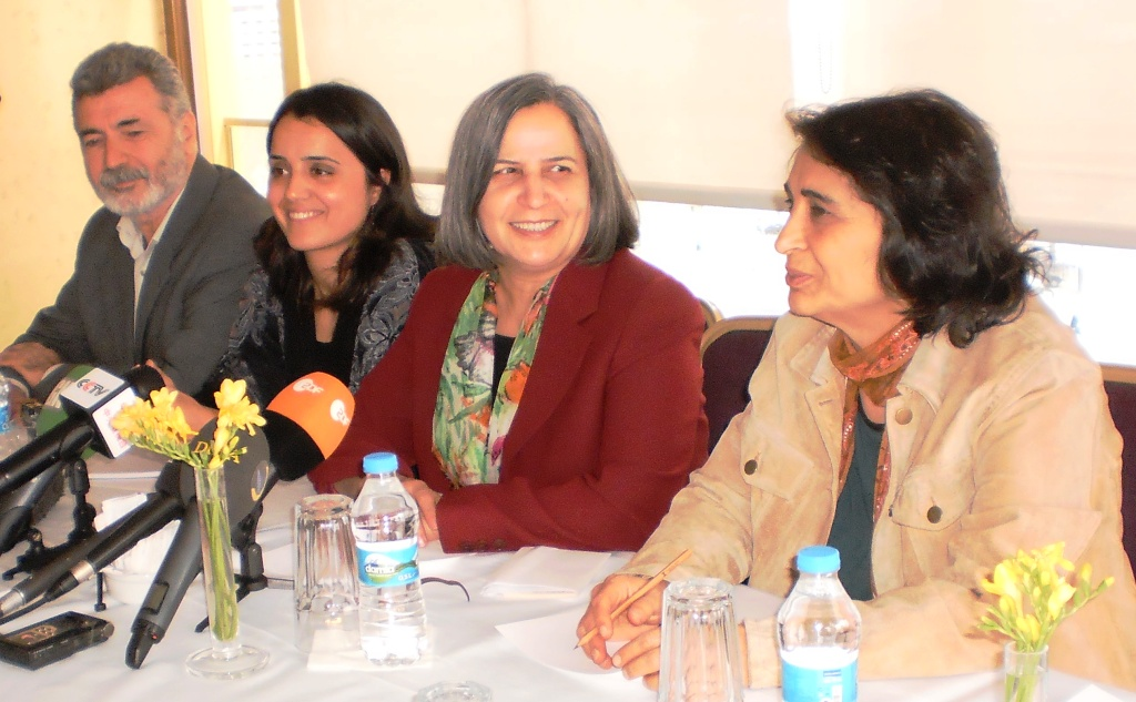 Meeting of Kurdish Peace and Democracy Party (left to right:Kemal Pekoz, Asya Koçak, Gülten Kışanak and Filiz Koçali) in Istanbul